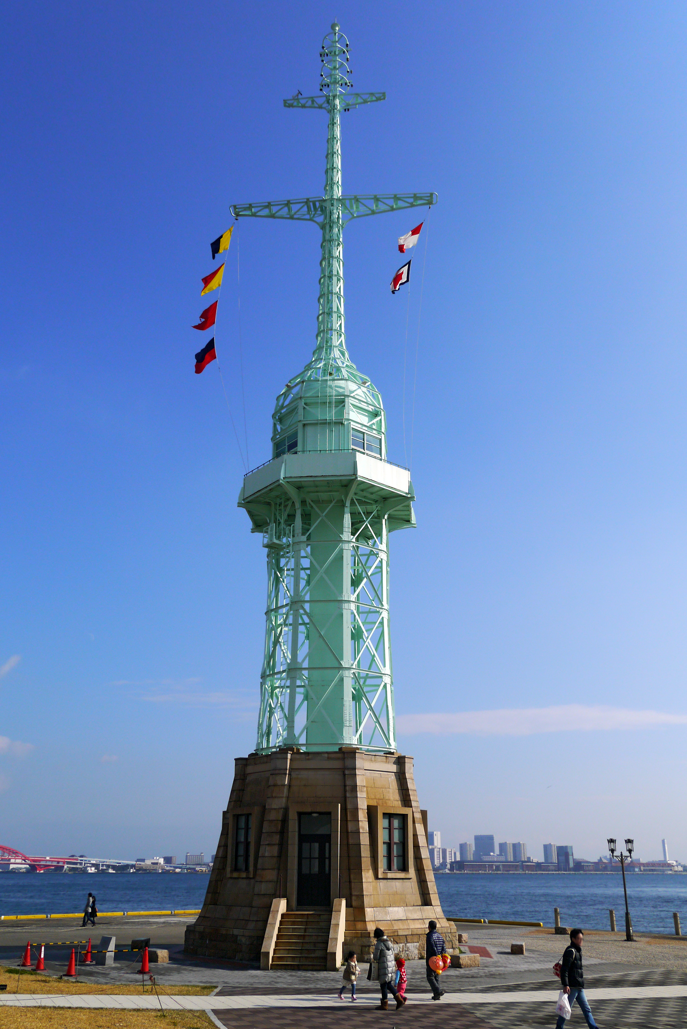 Old Kobe Harbor Signal Tower (旧神戸港信号所), Kobe, Hyogo prefecture, Japan